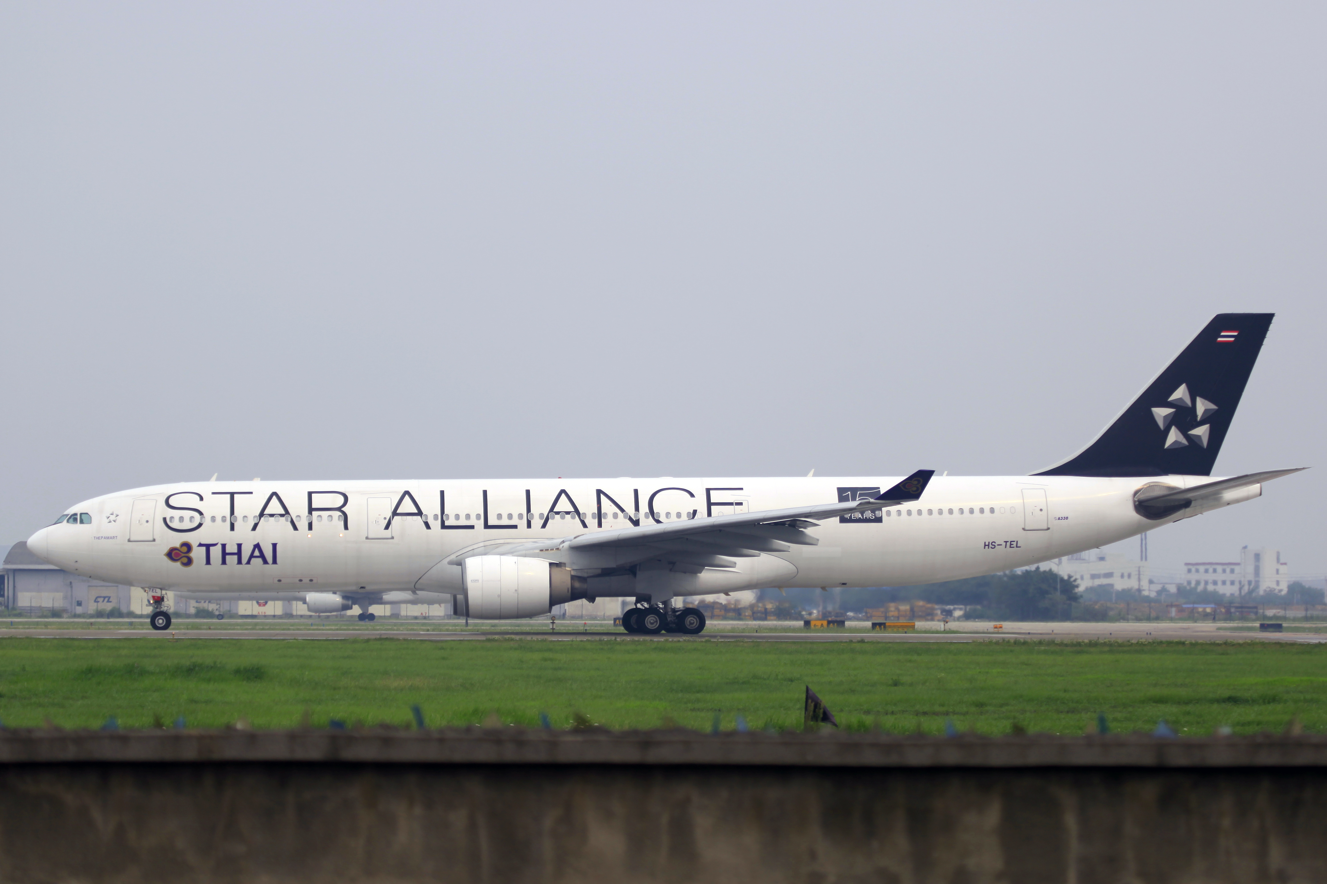 HS-TEL | Thai Airways International | Airbus A330-322 | Star Alliance Livery | Chengdu Shuangliu International Airport [CTU]